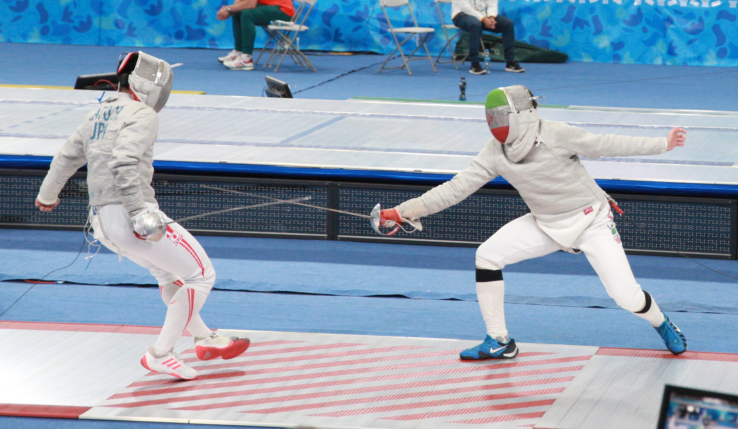 Fencing at the 2018 Summer Youth Olympics at 7 October 2018 – Boys' sabre Round of 16 – Amirhossein Shaker (IRI) Vs Hibiki Kato (JPN) 9:15